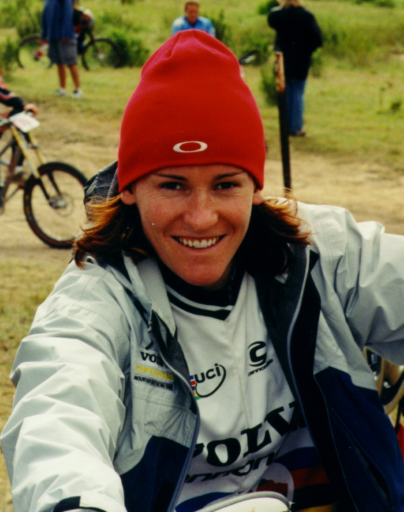 Anne-Caroline Chausson. Photo was taken just prior to the start of the downhill mountain bike competition at the 2001 Sea Otter Classic.